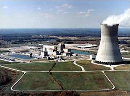 Aerial view of the Callaway Plant, Unit 1. Located at Callaway Nuclear Generating Facility near Fulton, Missouri